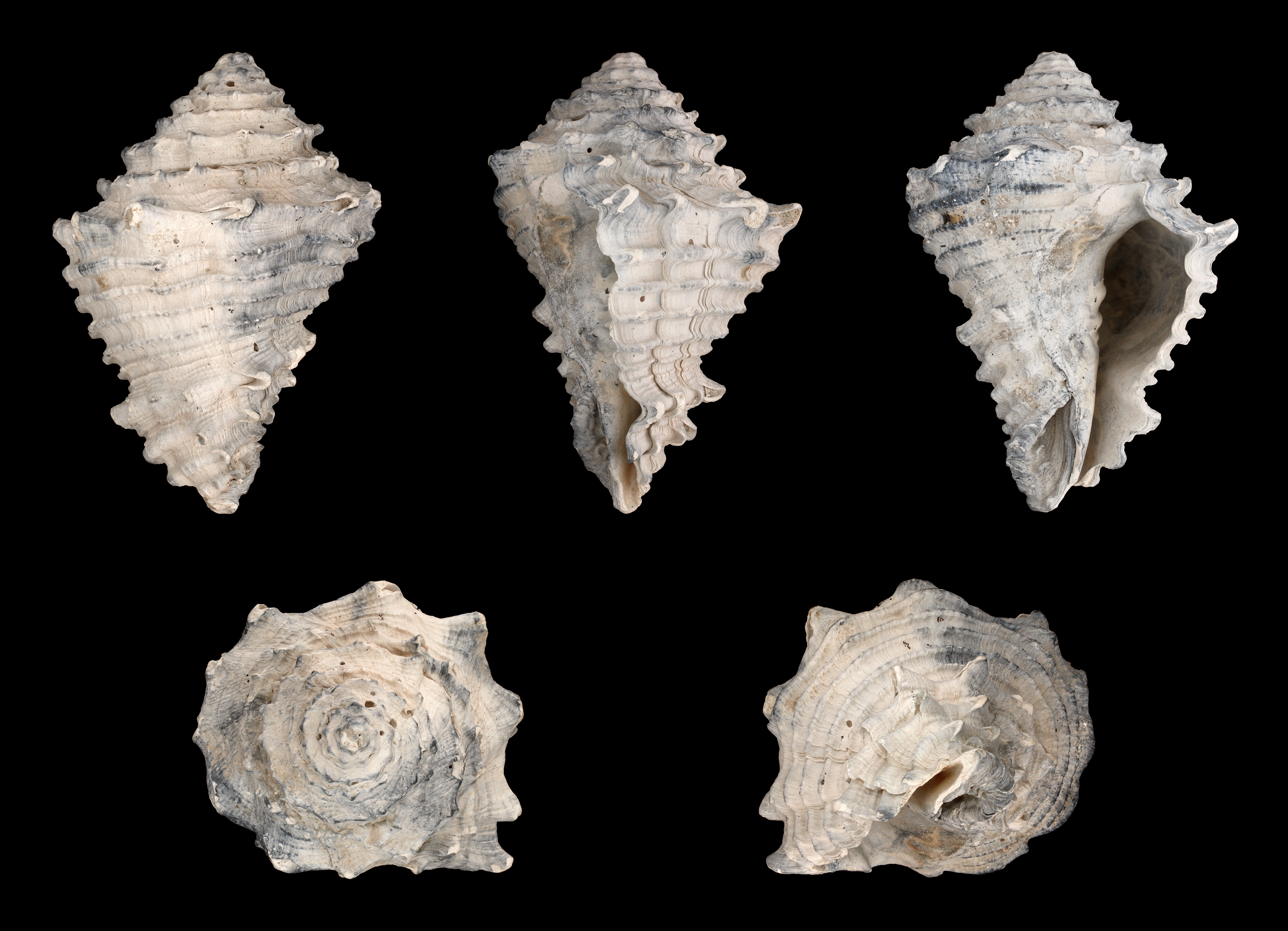 Rough Vase, Length 8.0 cm; Tertiary, Pliocene, Caloosahatchee Formation, Sarasota, Florida, USA; Shell of own collection, therefore not geocoded. Dorsal, lateral (right side), ventral, back, and front view.